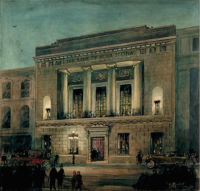 The Bank of Nova-Scotia at 125 Sparks St. in Ottawa.